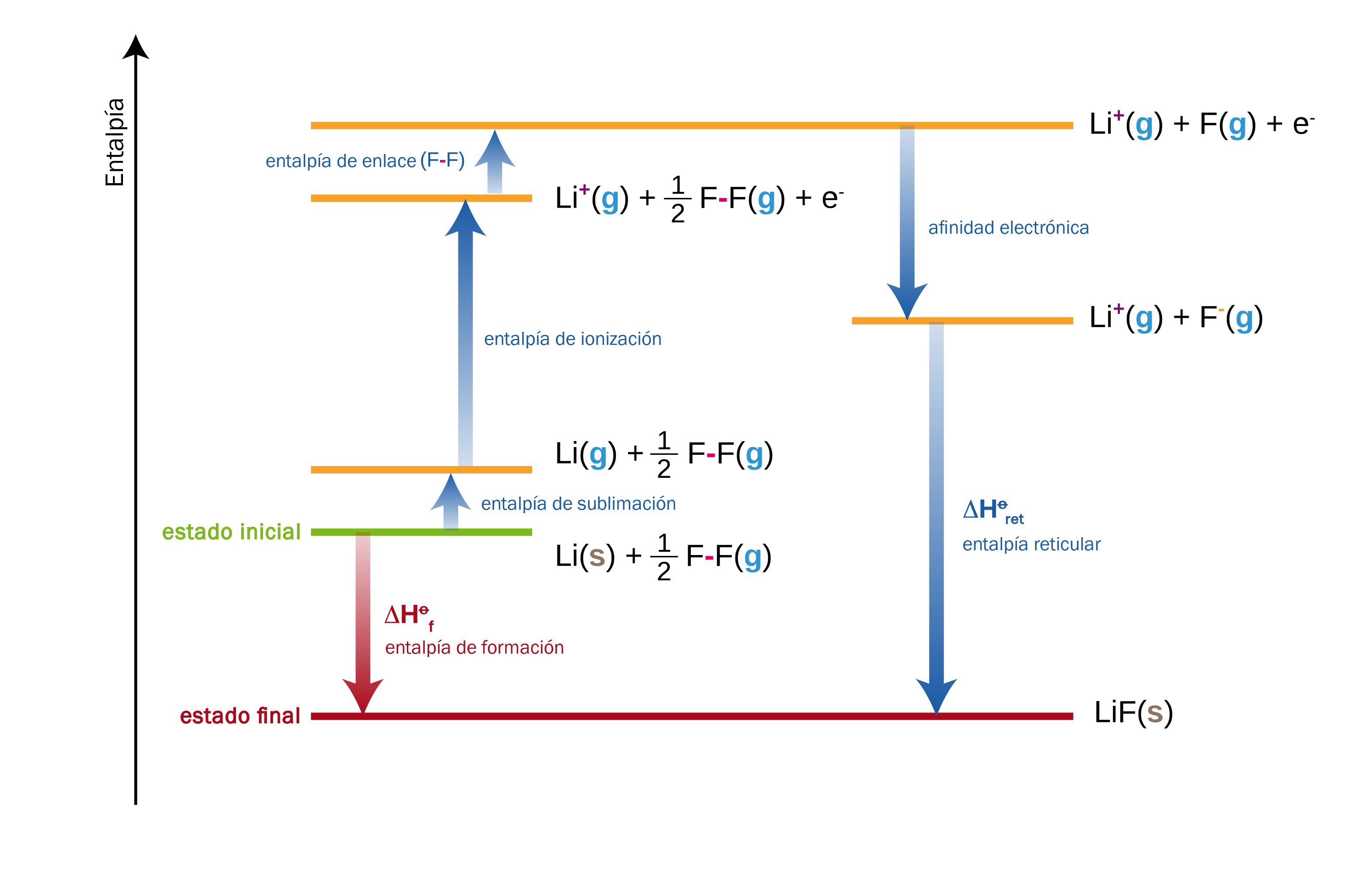 Translation in Spanish of Born-Haber cycle for the formation of lithium fluoride.